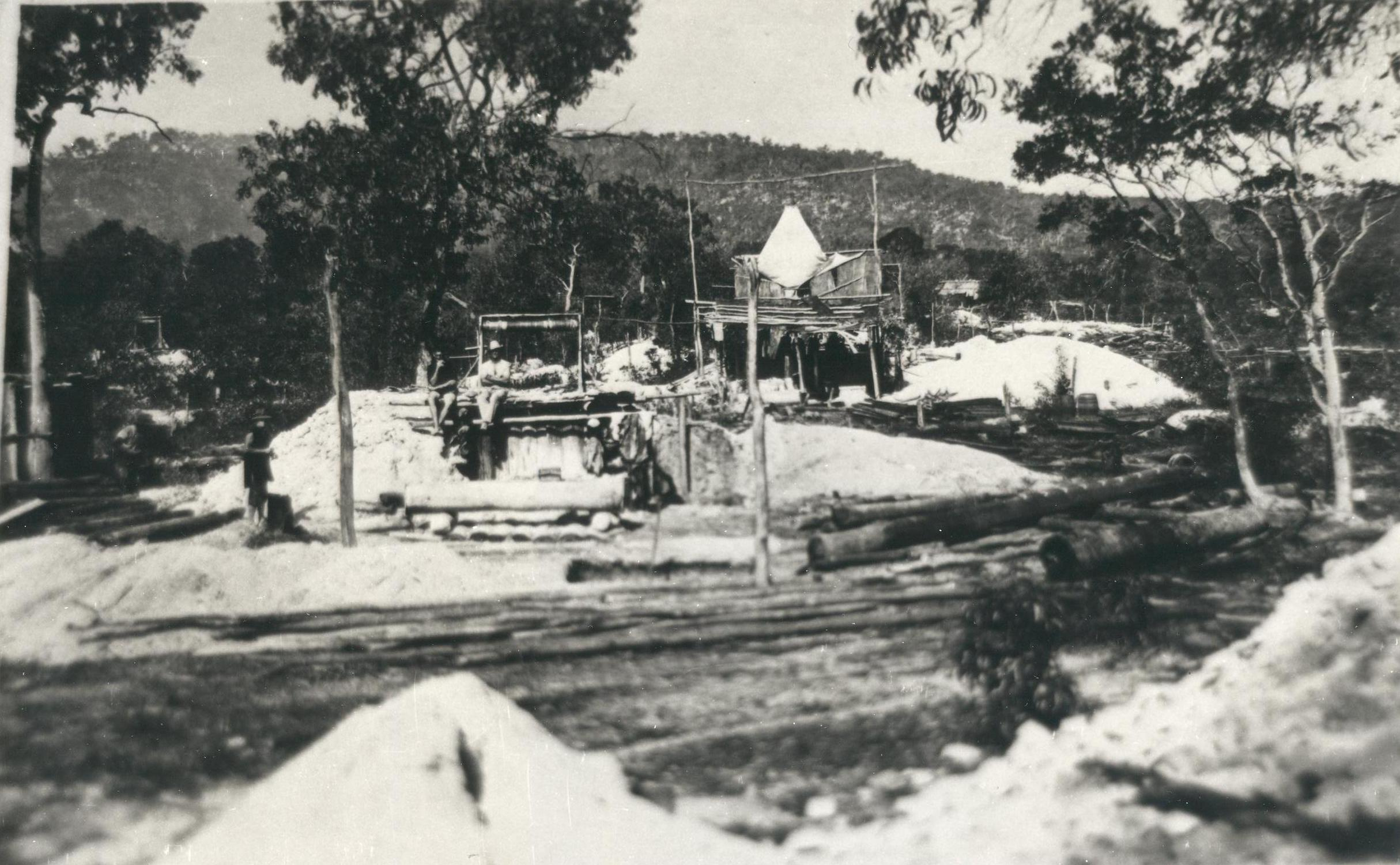 Wenlock gold mines, 1930s